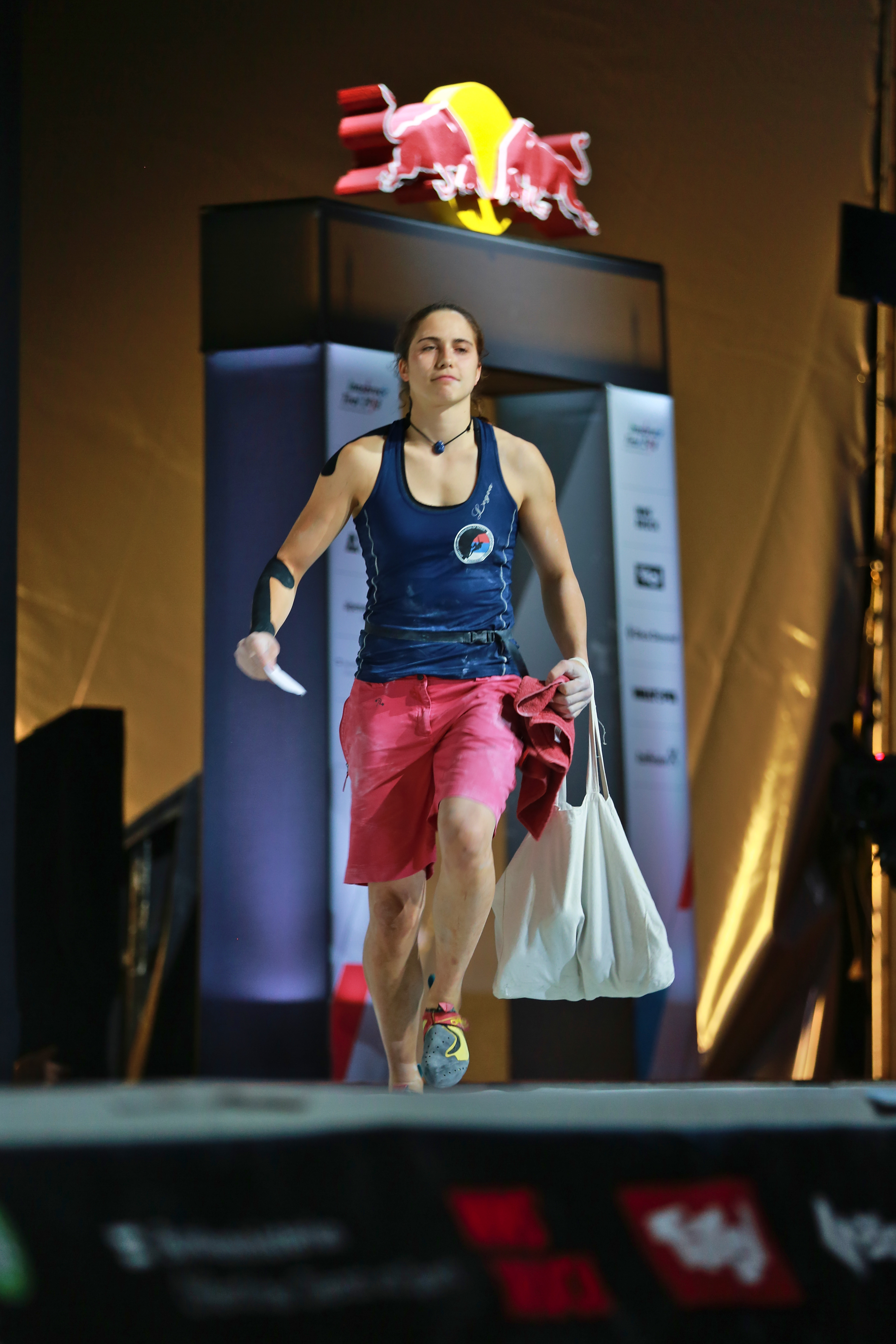 Climbing World Championships 2018 Boulder Final Gejo